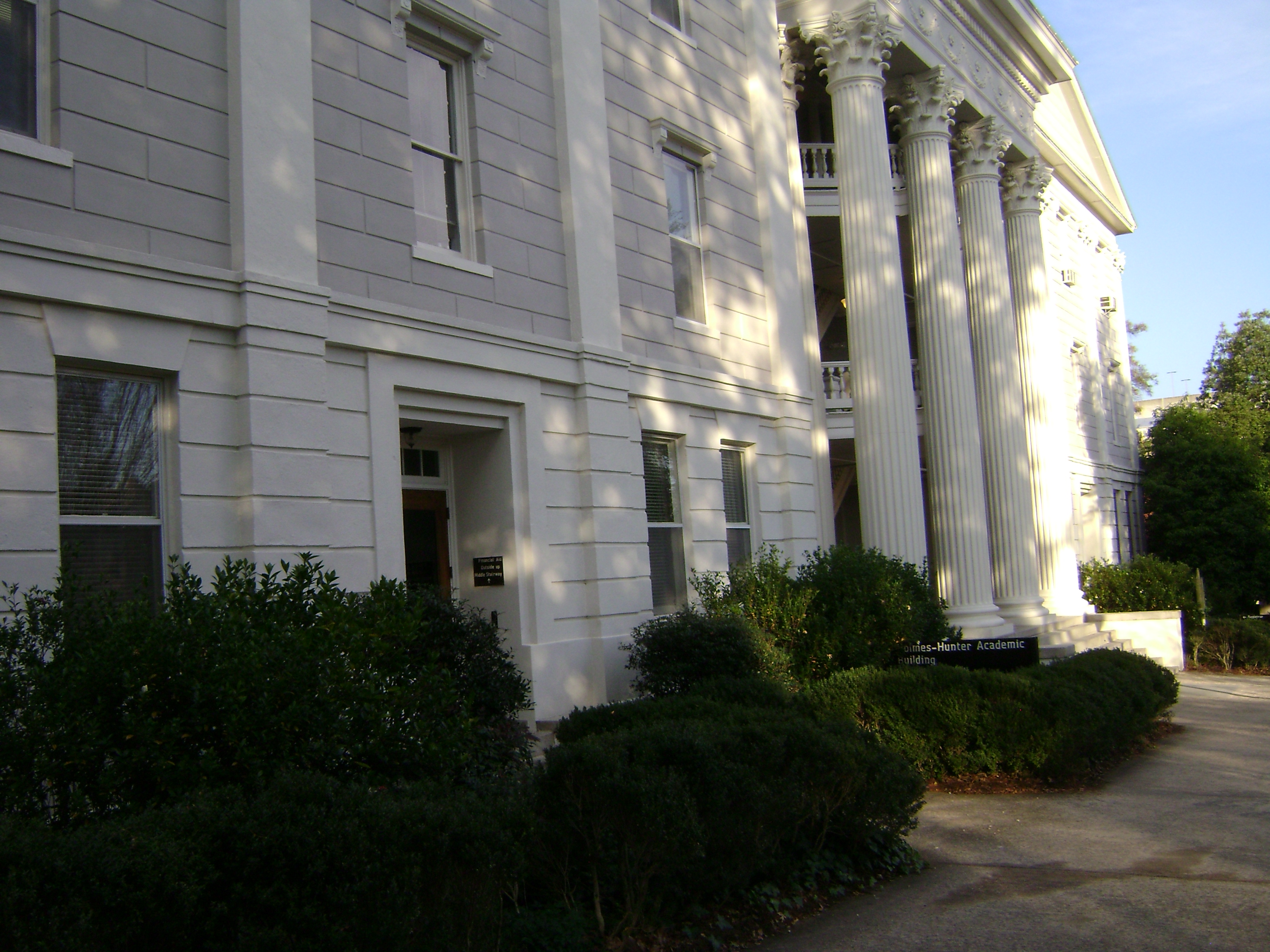 Holmes-Hunter Academic Building, UGA, Athens, Clarke County, Georgia